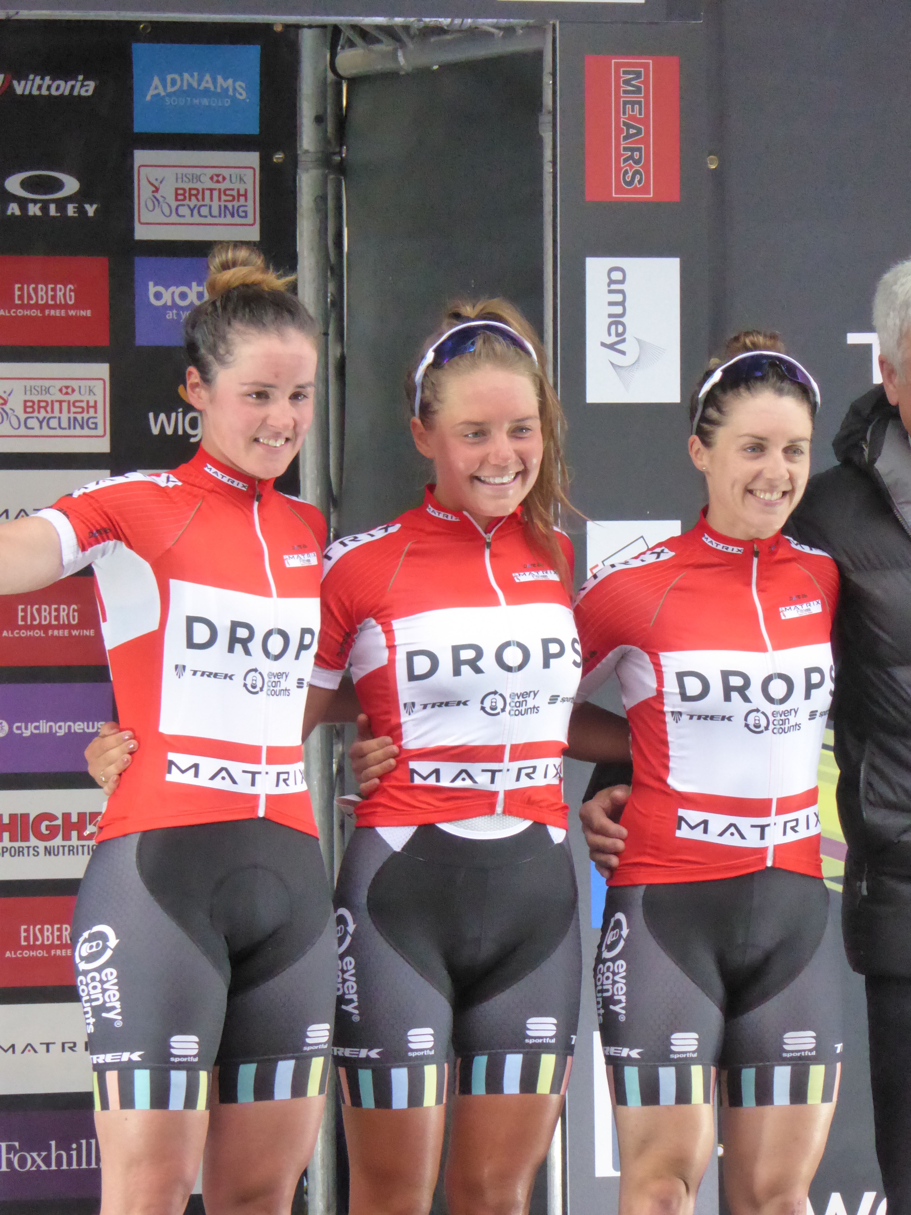 Drops, teams classification leader after Round 7 of the Matrix Fitness GP Series in Motherwell, on 23 May 2017.